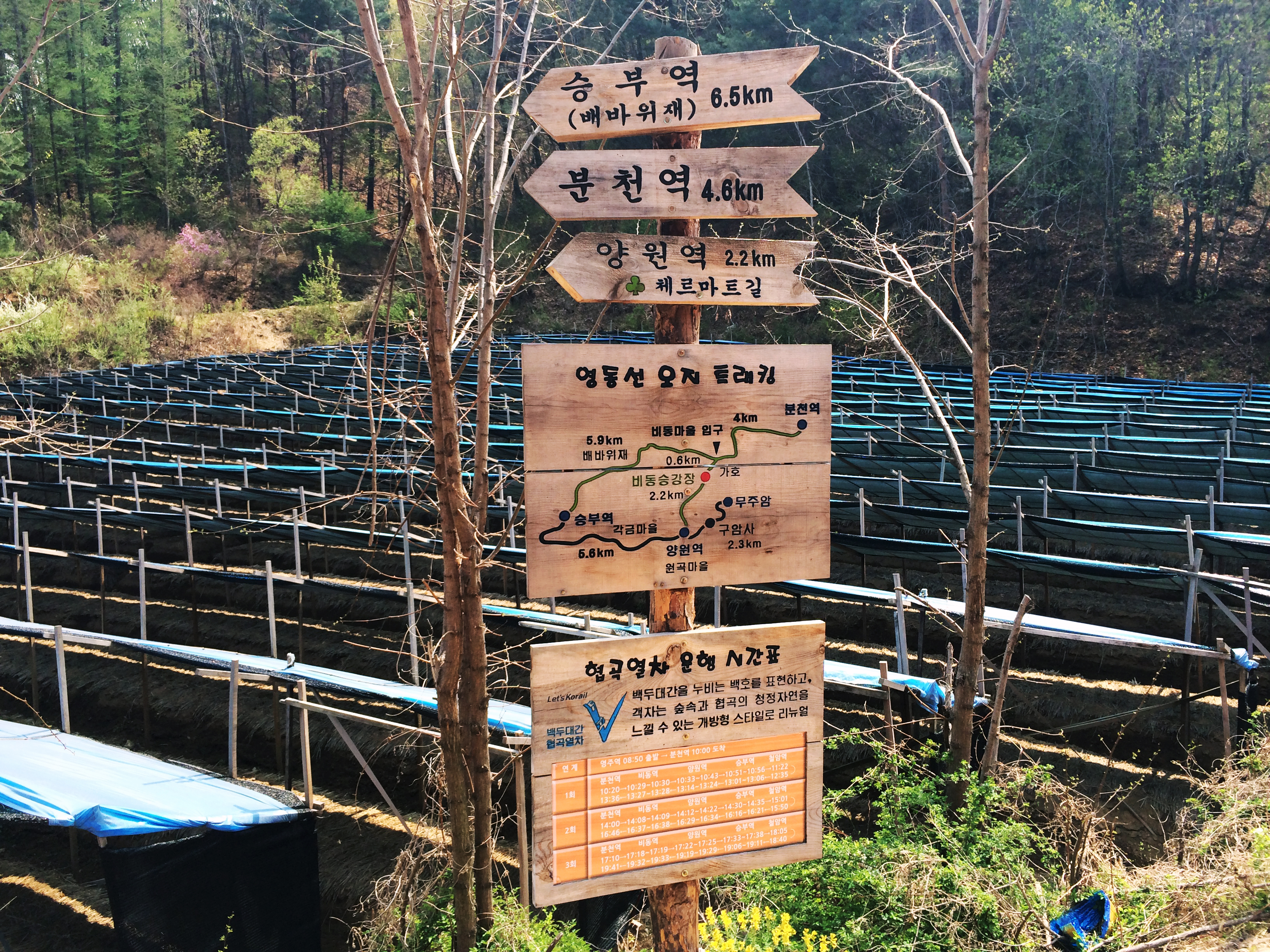 Running in board of Bidong Station